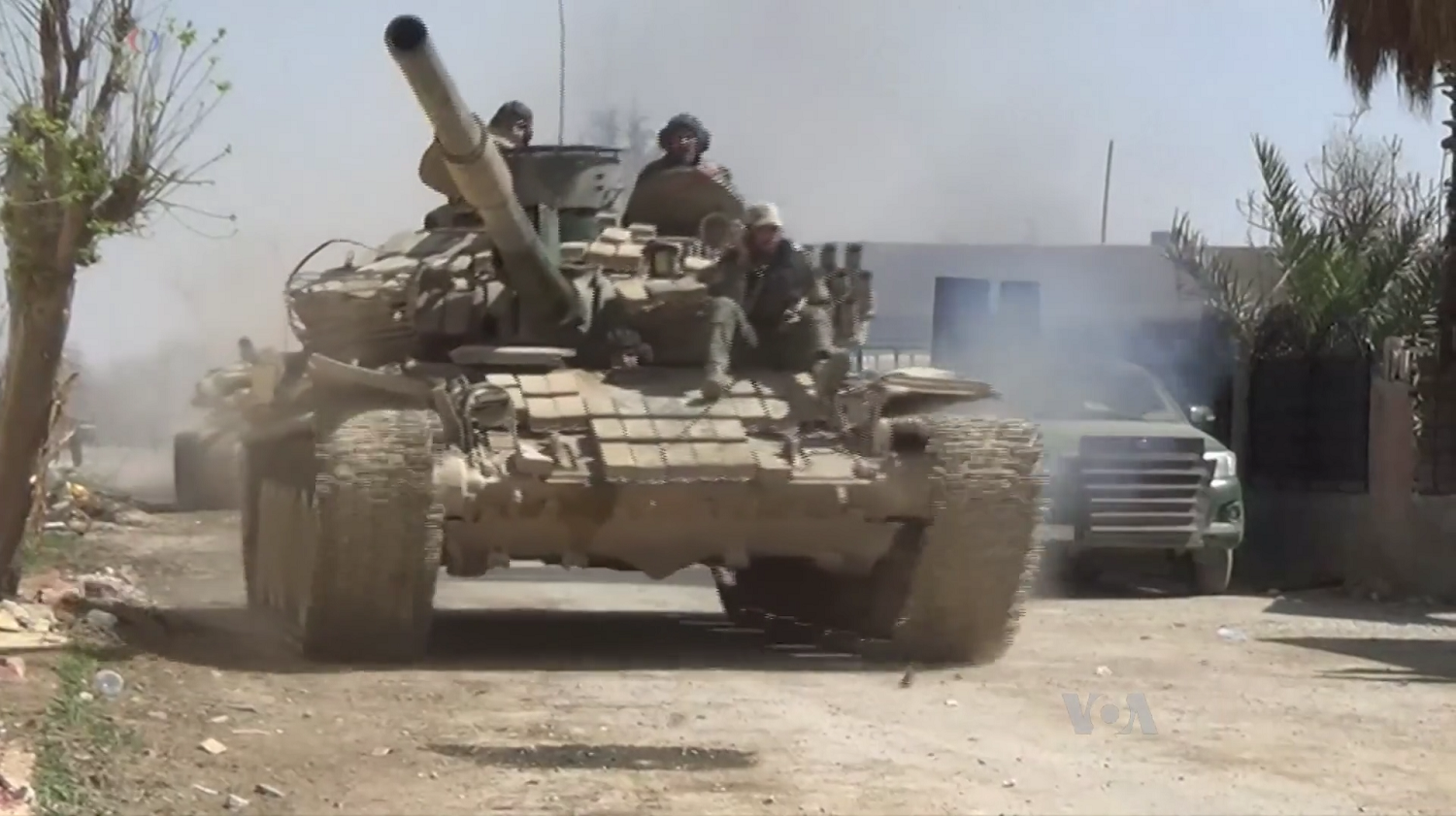 Syrian Army tanks advance during Operation Damascus Steel in March 2018.